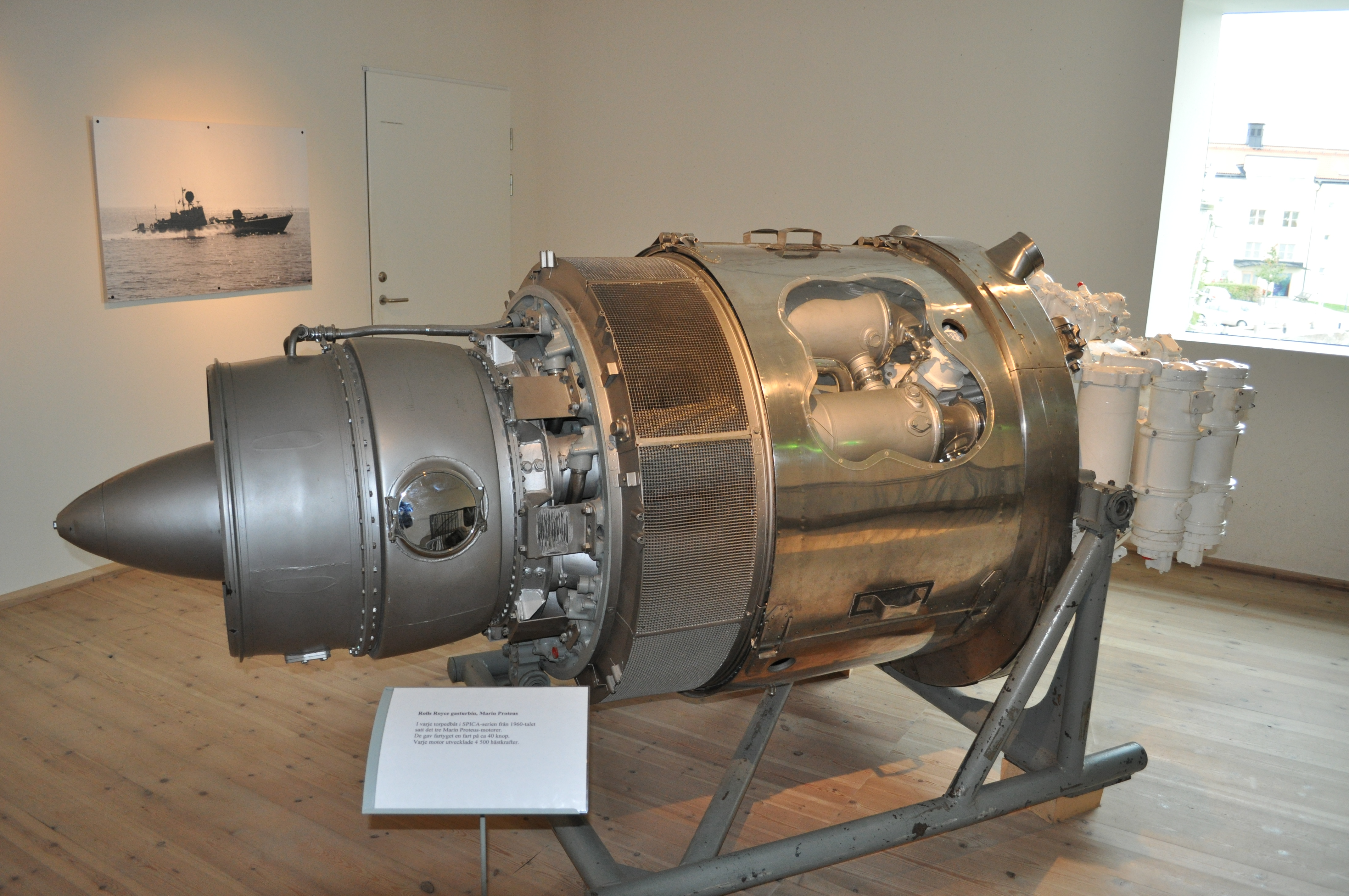 Rolls-Royce Gas-turbine 4 500 hp for HMS Spica (T121)